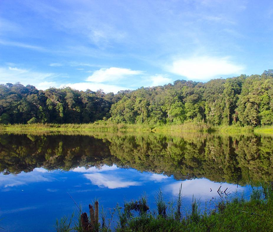 Tambing Lake, located in Lore Lindu National Park, Indonesia.